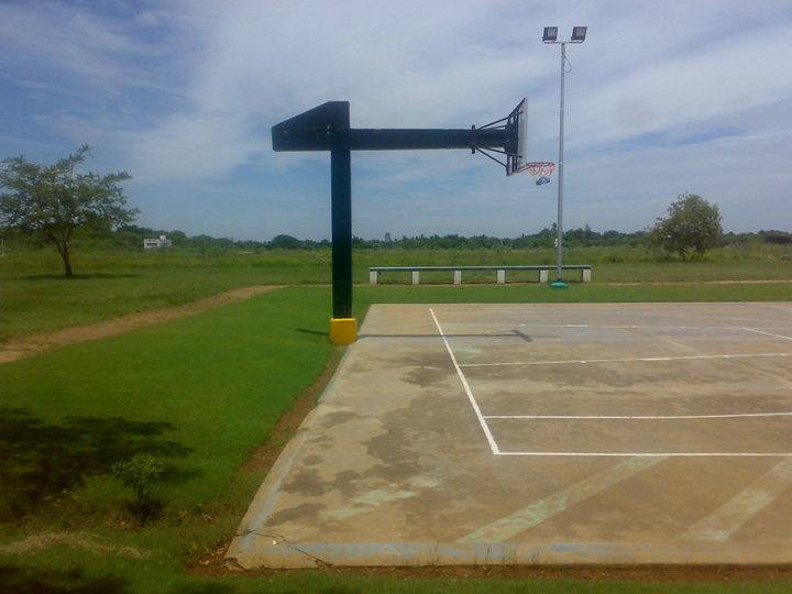 SSN lawns